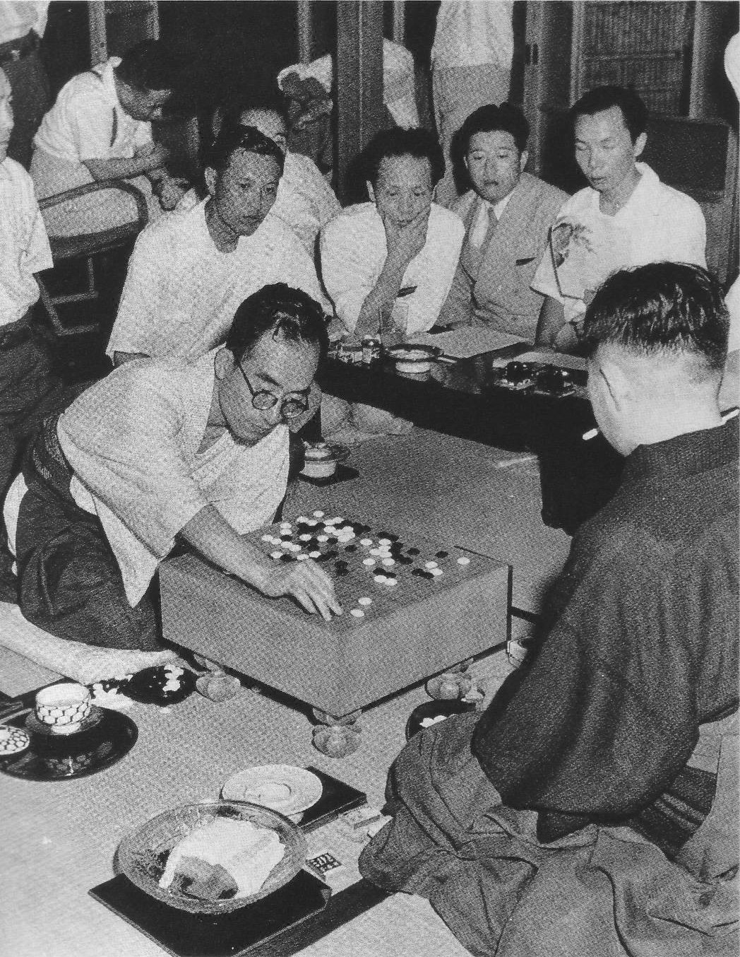 Kaku Takagawa (Japanese Go players).